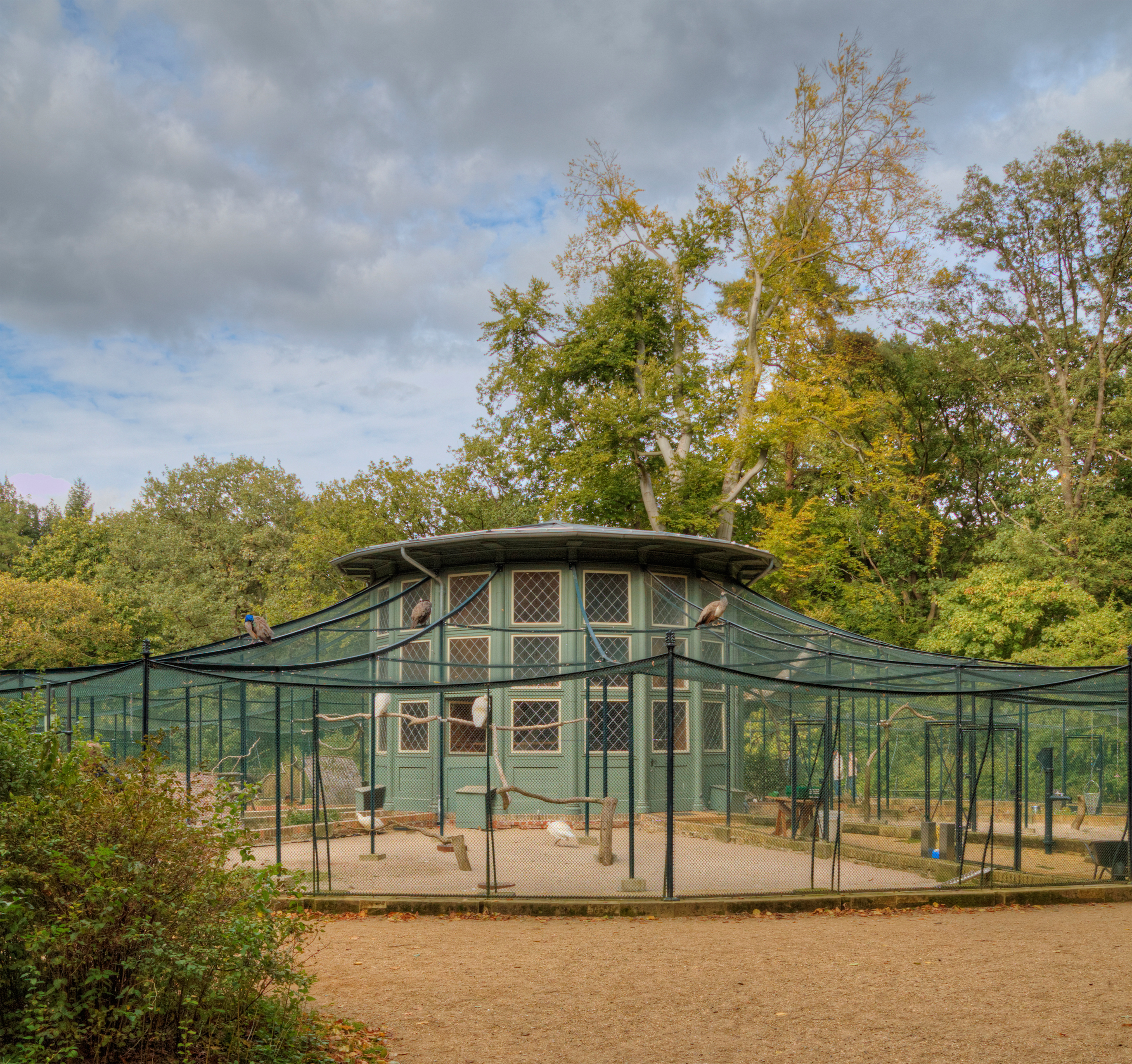 UNESCO World Heritage site „Peacock Island“ in Berlin-Wannsee. The Aviary.